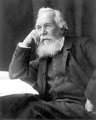 Ernst Heinrich Philipp August Haeckel (February 16, 1834 – August 9, 1919) was a German biologist.